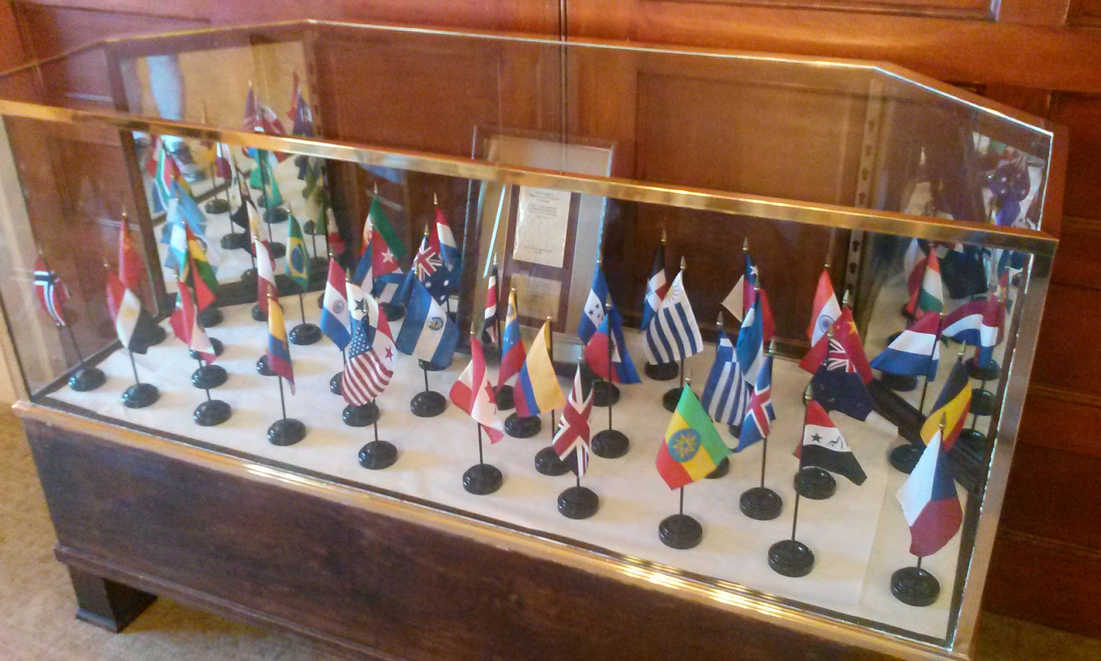 The display case showing the flags of all the nations represented at the Monetary Conference at the Mount Washington Hotel resulting in the establishment of the International Monetary Fund in 1944.